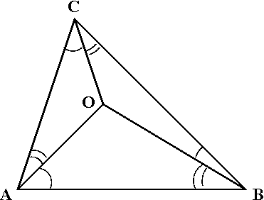 Law of sines, extended to a tetrahedron